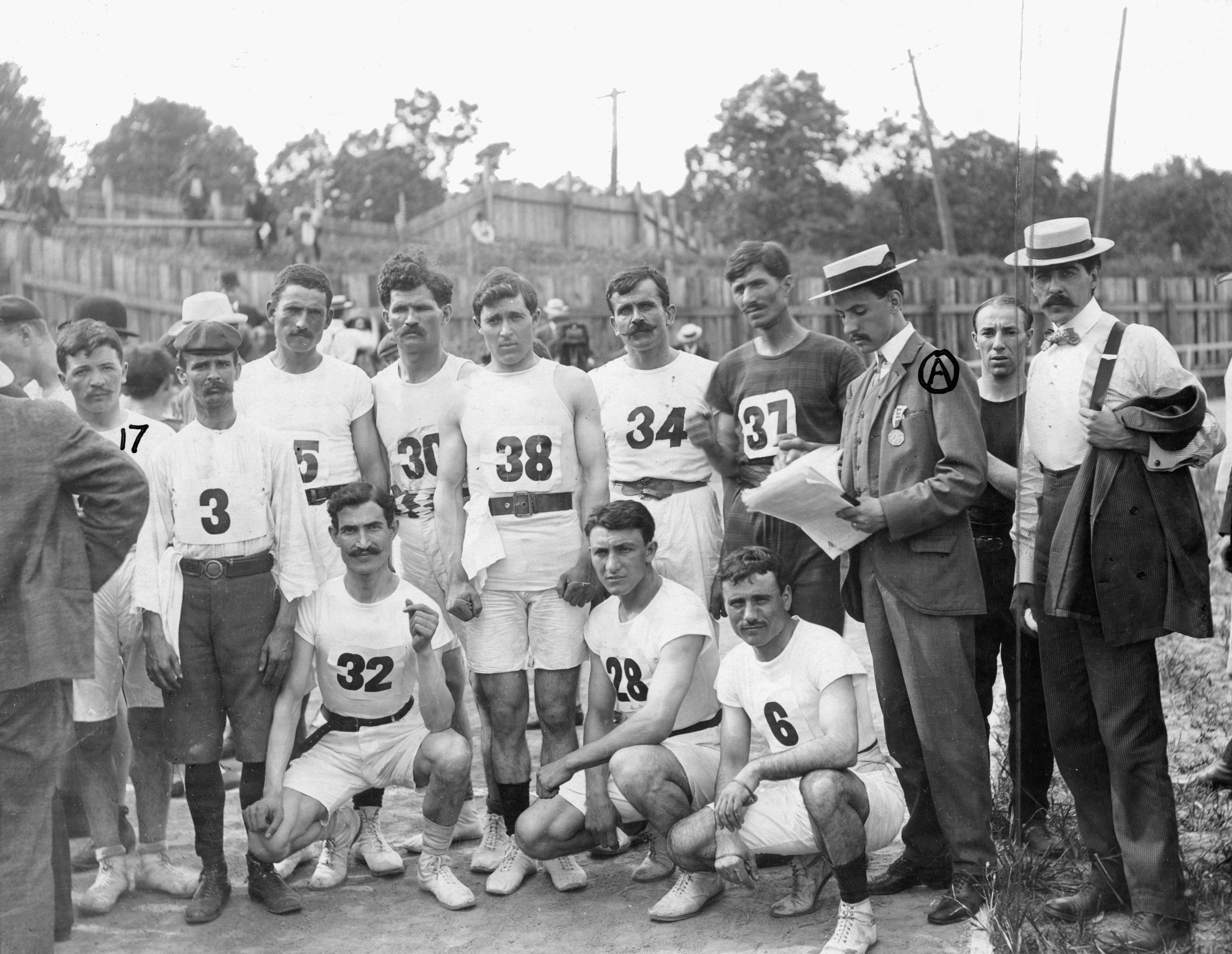 Group of Greek Athletics and Felix Carbejaldesoto of Cuba posing on track including: #3 Felix Carvajal, Cuba; #25 Geo. D Vamvakitis, Greece; #30 John Furla, Greece; #38 John Lugitsas, Greece; #34 George Drosos, Greece; #37 G. Louridas, Greece; #32 Harry Janakas, Greece; #28 And. I. Iconomon, Greece; #6 Christos D. Zehoouritis, Greece (A) Hector M. E. Pasmezoglu, Greece. John Furla, emigrated from Greece in 189_, and represented Greece in the Marathon. He later ran a wholesale produce business in St. Louis, and sponsored a St. Louis Track Club's Furla Cup.Title: Group of runners in the 1904 Olympic Marathon Race. Greek competitors and Felix Carbajal de Soto of Cuba [#3].